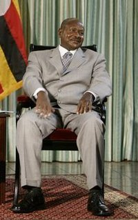 Ugandan President Yoweri Museveni, Entebbe, July 2003.